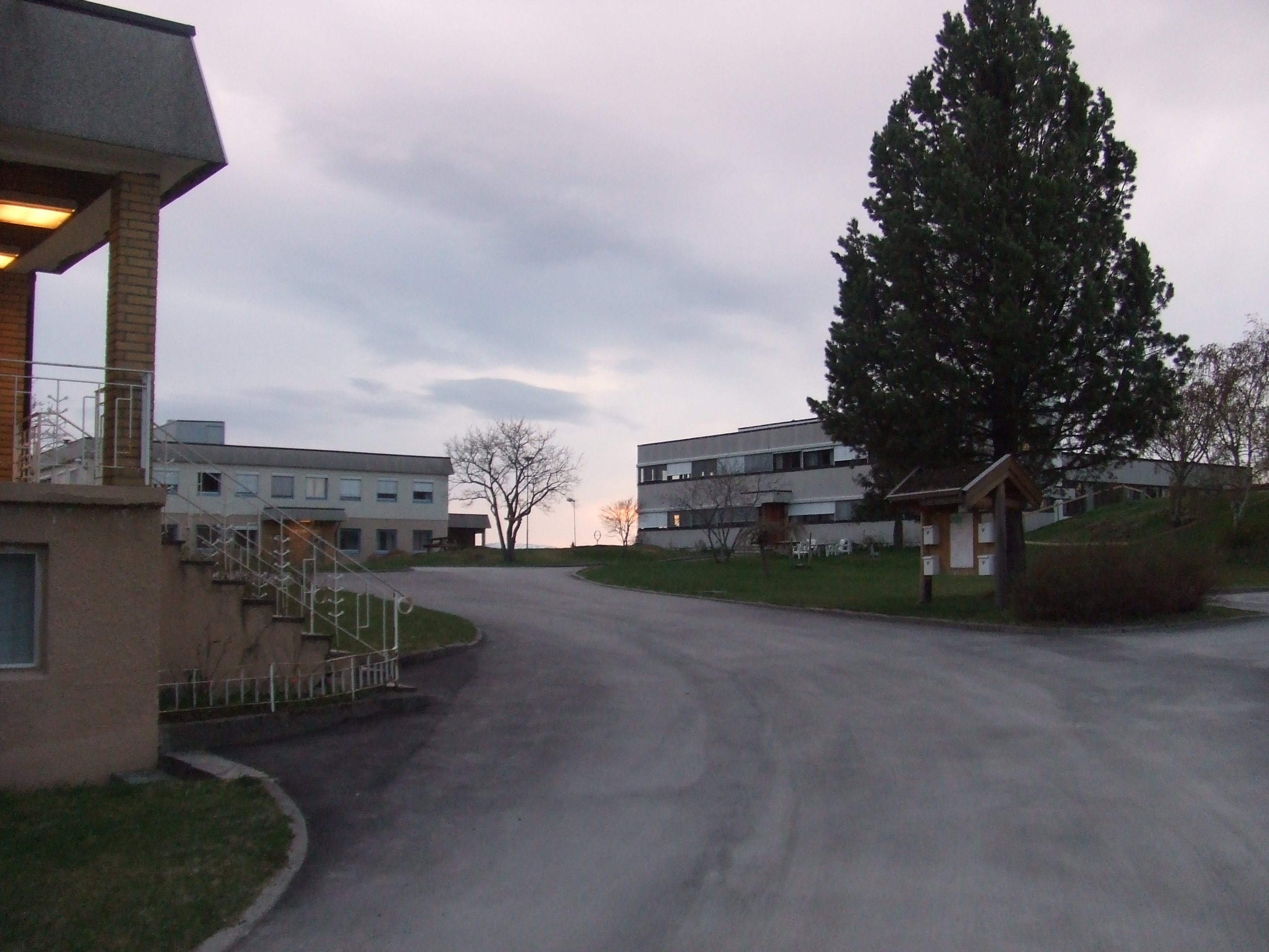 Aglo High School at Skatval in Stjørdal municipality, Norway. Seen from the road.